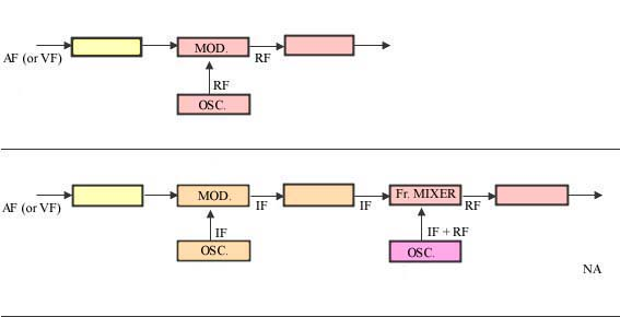 Block diagram of a superheterodyne transmitter